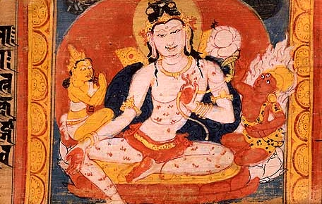 Painting of Avalokitesvara Bodhisattva. Sanskrit Astasahasrika Prajnaparamita Sutra manuscript written in the Ranjana script. Nalanda, Bihar, India. Circa 700-1100 CE.